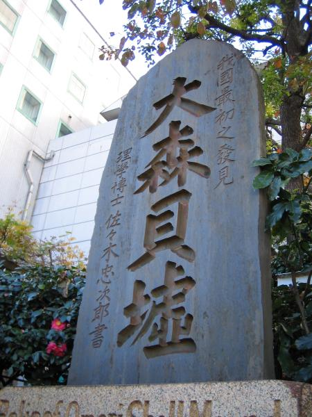 The monument of a shell mound in Omori.